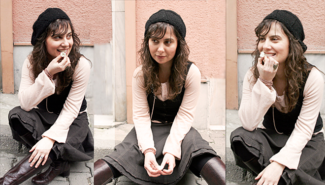 Collage of Goncagül Sunar